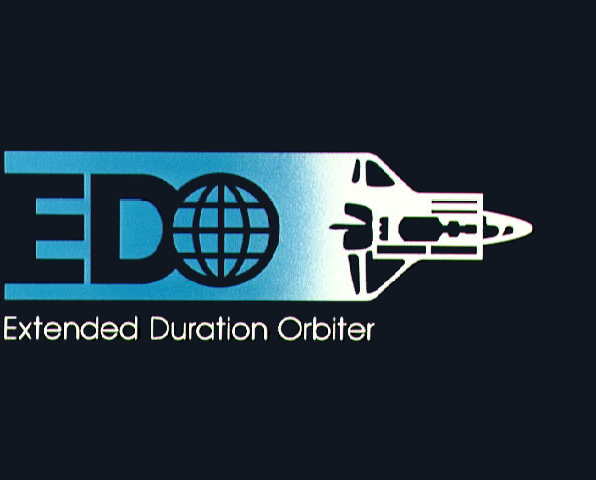 Extended duration orbiter (EDO) insignia incorporates a space shuttle orbiter with payload bay doors (PLBDs) open and a spacelab module inside. Trailing the orbiter are the initials EDO. The EDO-modified Columbia, Orbiter Vehicle (OV) 102, will be flown for the first EDO mission, STS-50.